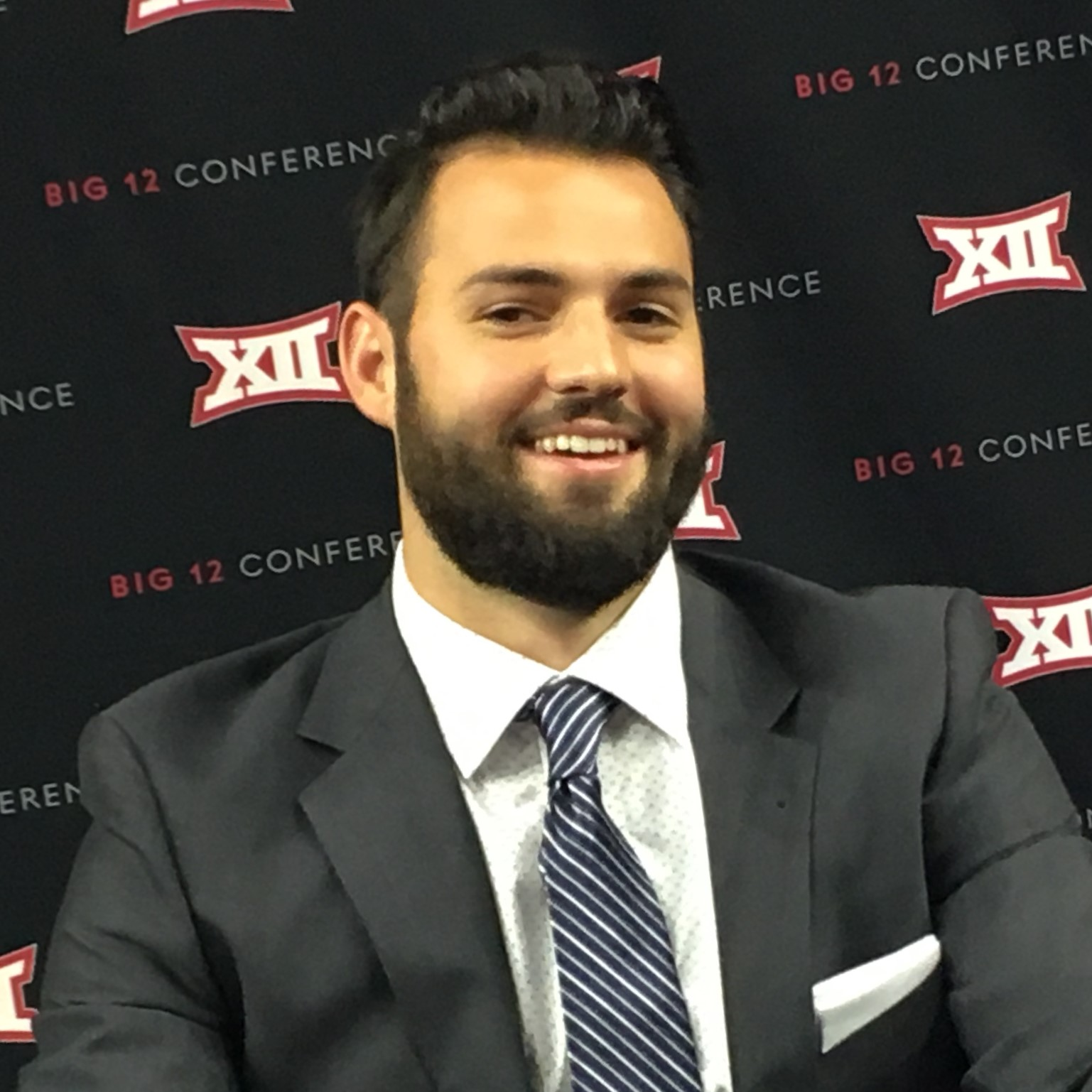 Will Grier, quarterback of the West Virginia Mountaineers football team, at the 2018 Big 12 Conference Media Days in Frisco, Texas.